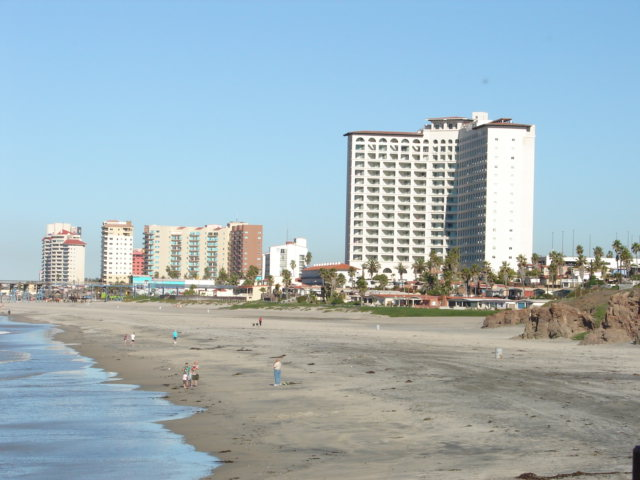 Rosarito Beach shoreline and Rosarito Beach Hotel